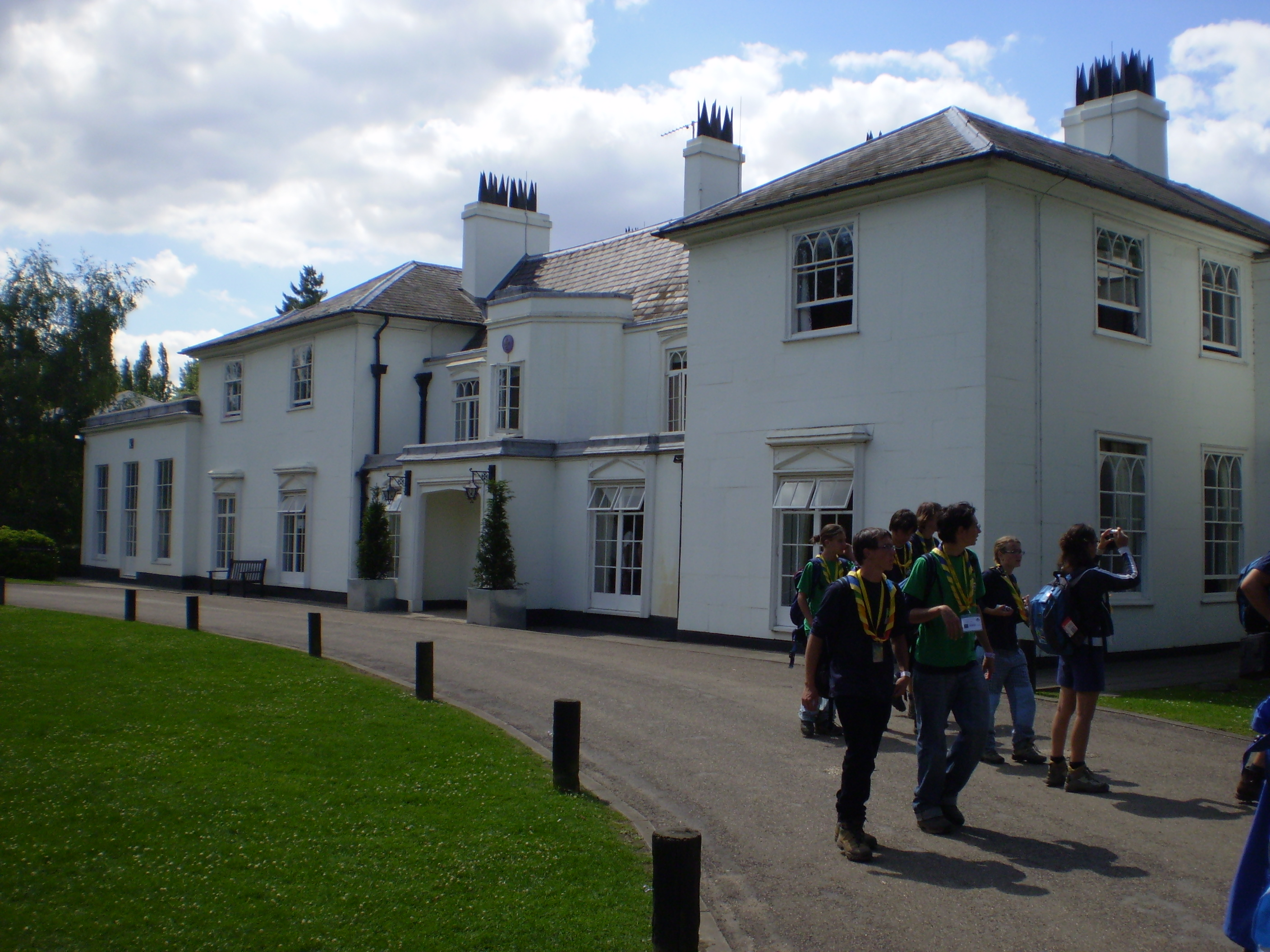 Gilwell Park Discovery at the 21st World Scout Jamboree: the White House